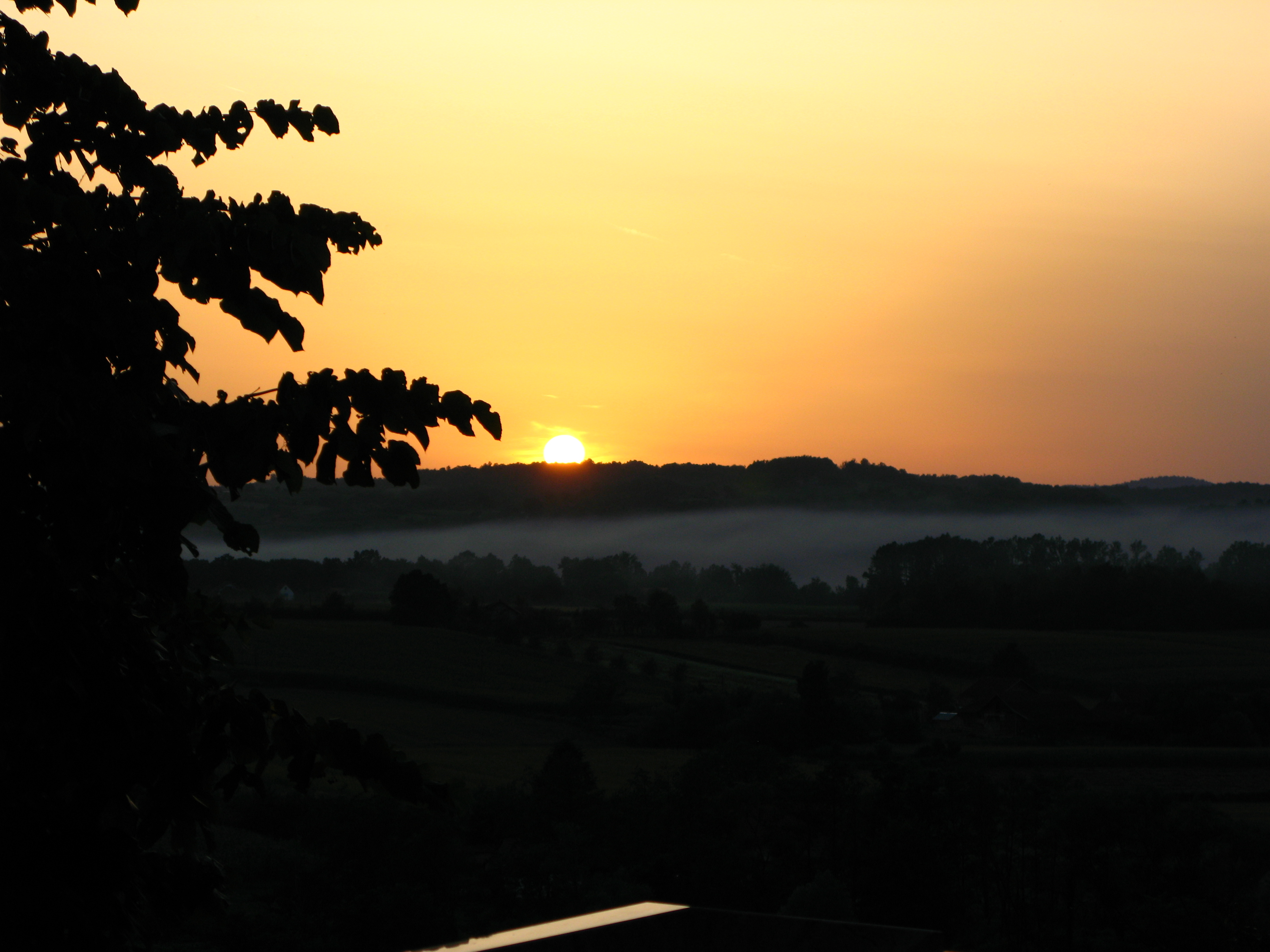 Knešpolje, Republika Srpska.